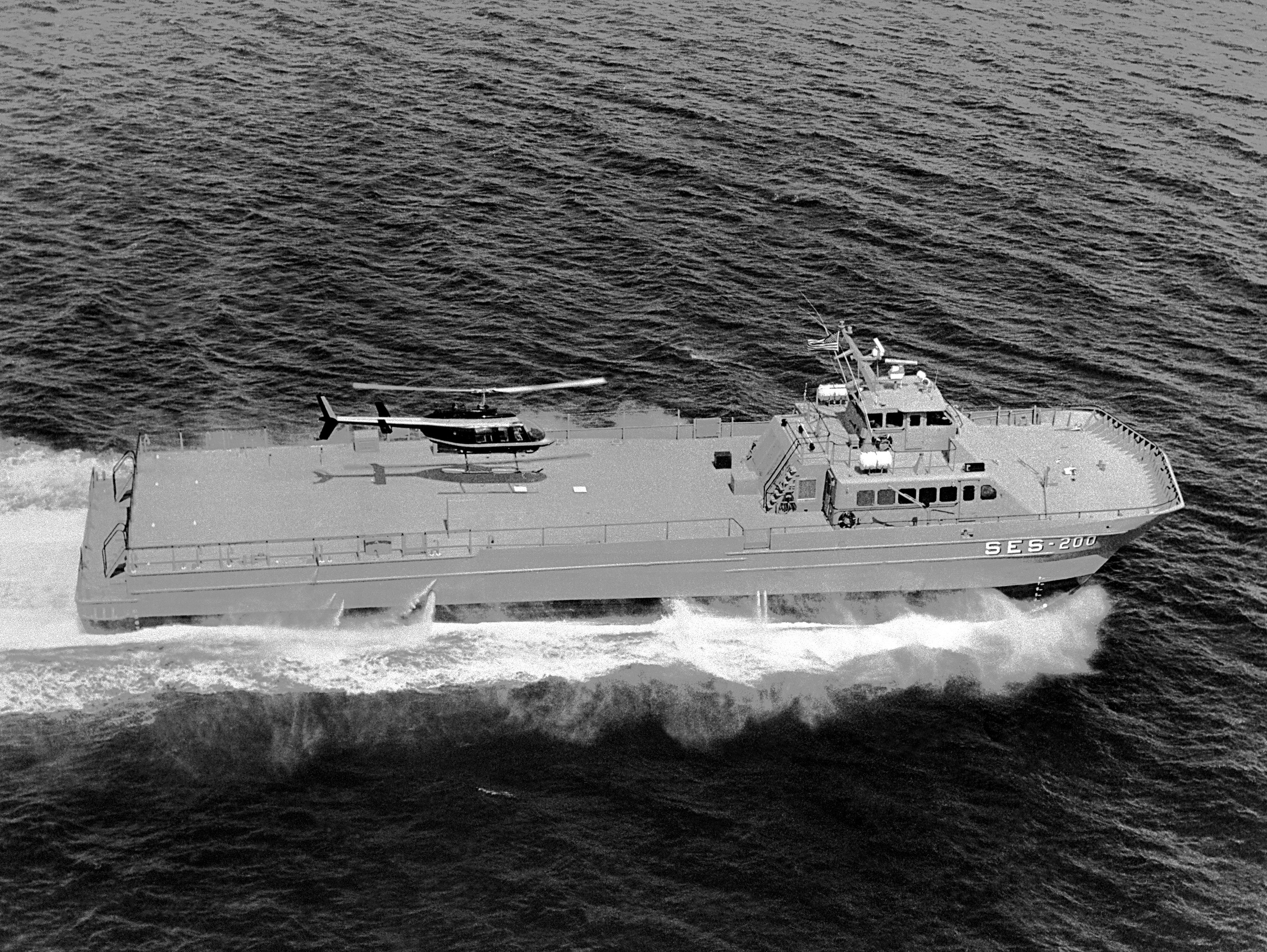 A starboard view of the surface effect ship SES-200 underway, with a Bell 206 Jet Ranger helicopter on board